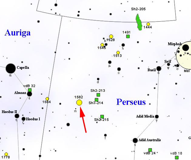 Map of NGC 1582